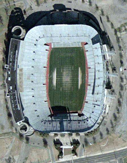 Legion Field in Birmingham, Alabama satellite image taken January 2004